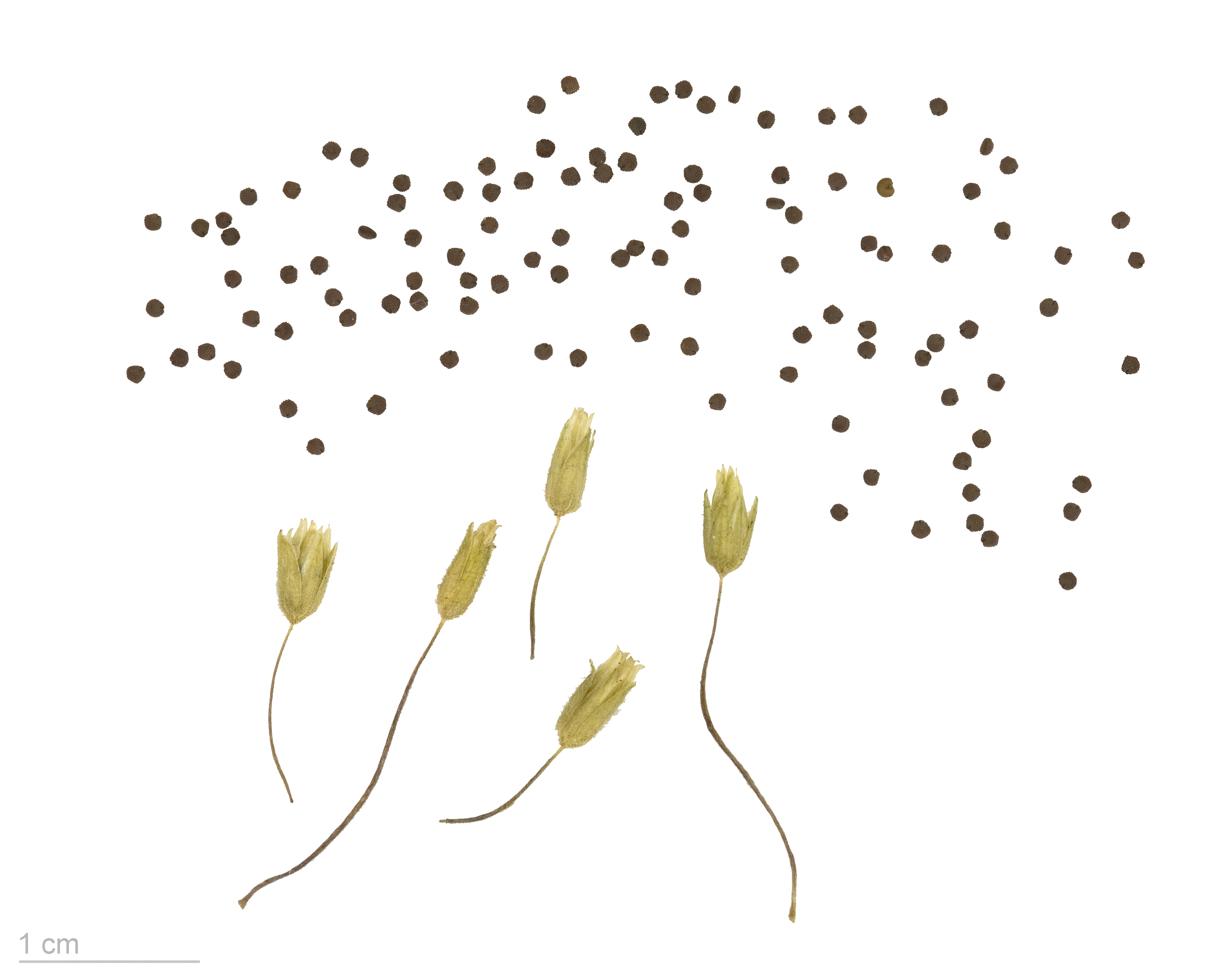 chickweed , fruits and seeds